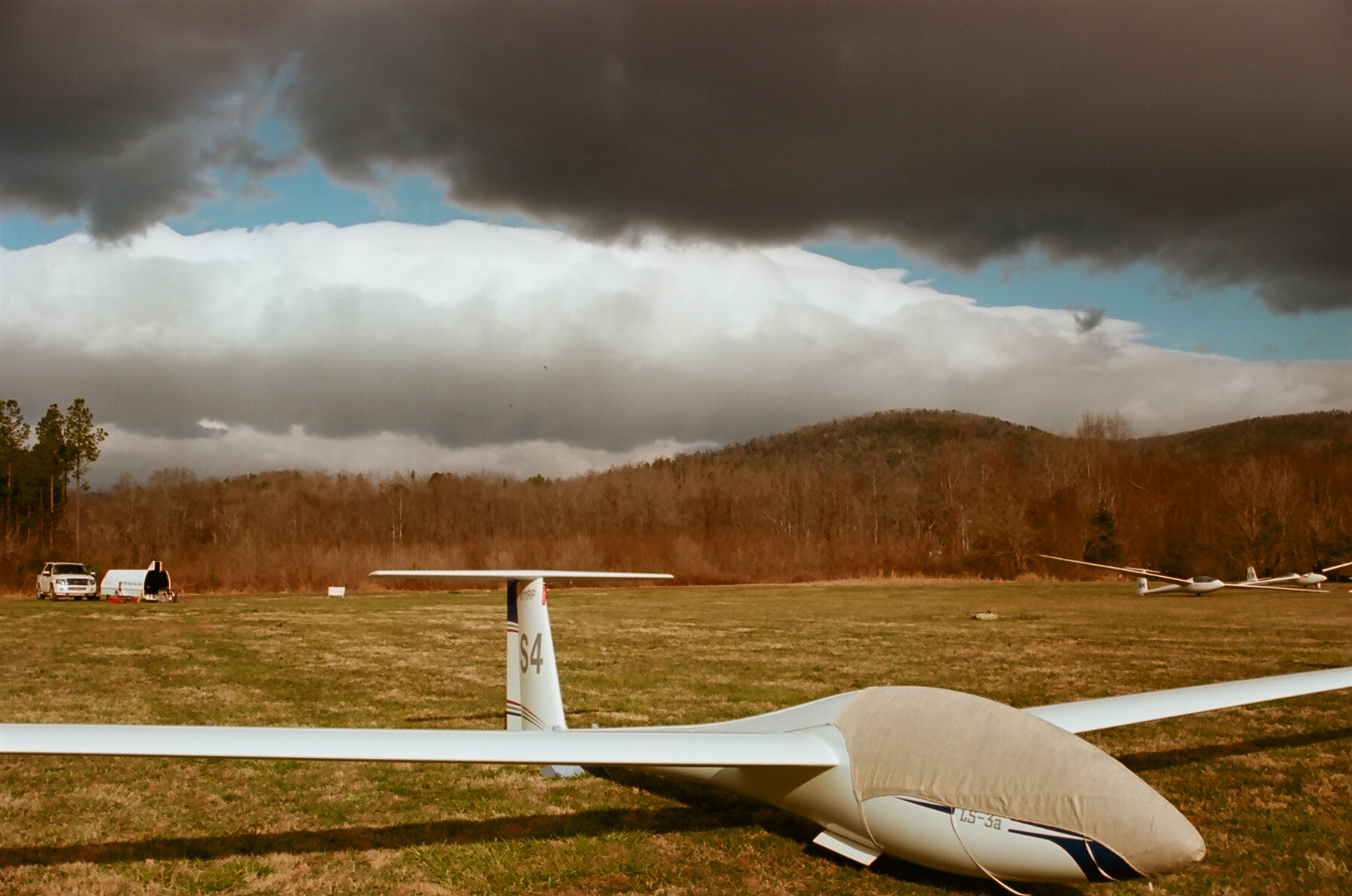 Roll clouds associated to a wave system on the lee side of Mount Mitchell (North Carolina)